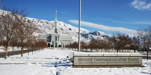 Mount Timpanogos Utah Temple of The Church of Jesus Christ of Latter-day Saints. Photo taken December 25, 2006 by Brian Davis.